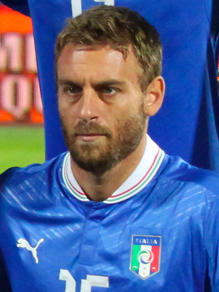 Daniele De Rossi before the football game with Bulgaria, "Vasil Levski" stadium, Sofia, Bulgaria, September 7, 2012